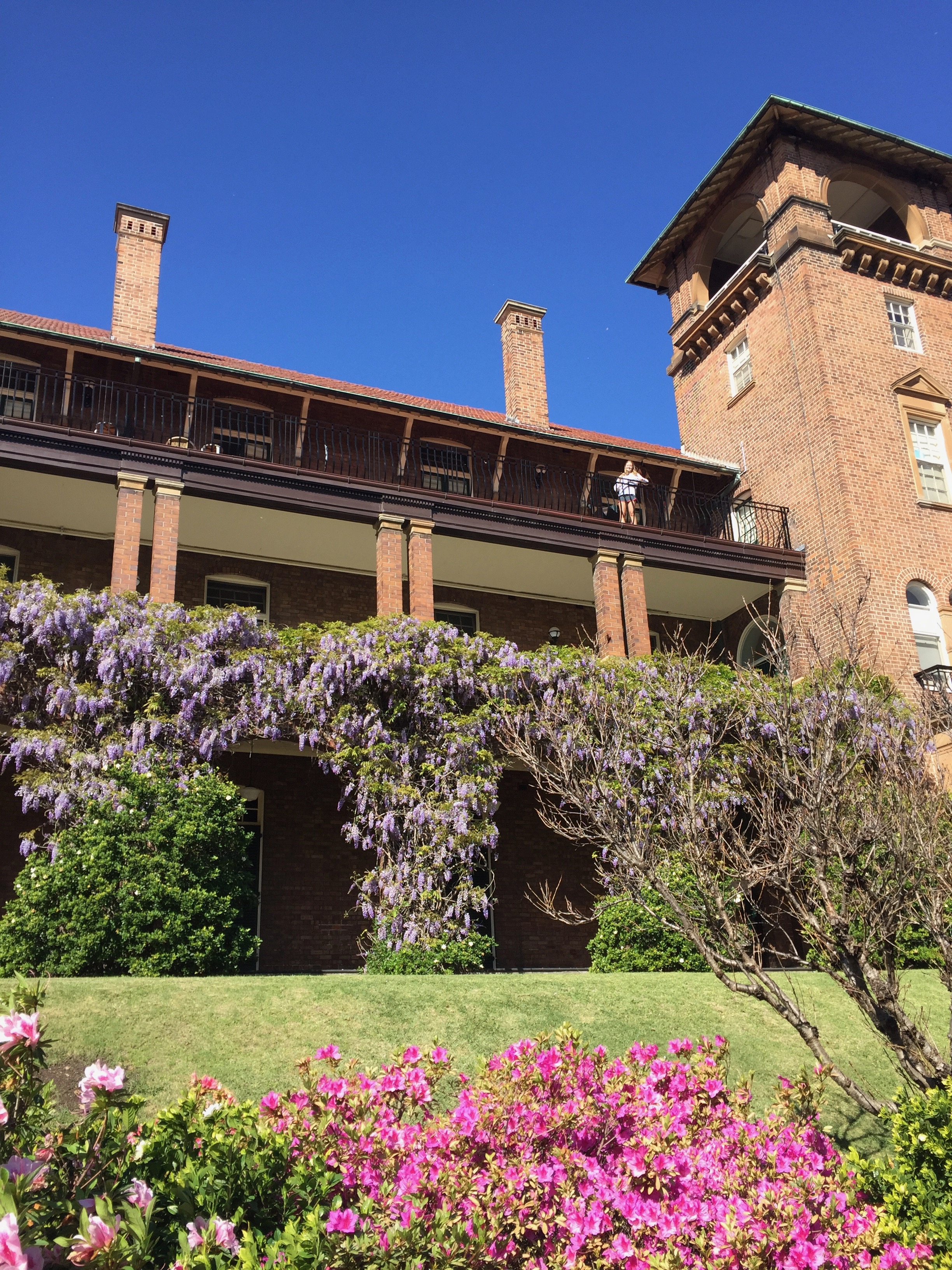 The Women's College Main Building in Summer pictured from the road and parking lot in front of the building